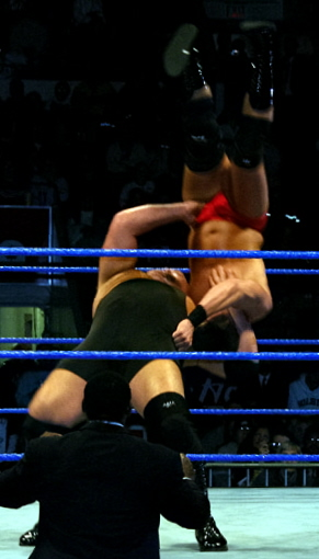 The Big Show performs a Suplex on John "Bradshaw" Layfield during on a WWE house show held in Kitchener, Ontario, Canada on January 15, 2005.big show v. jbl